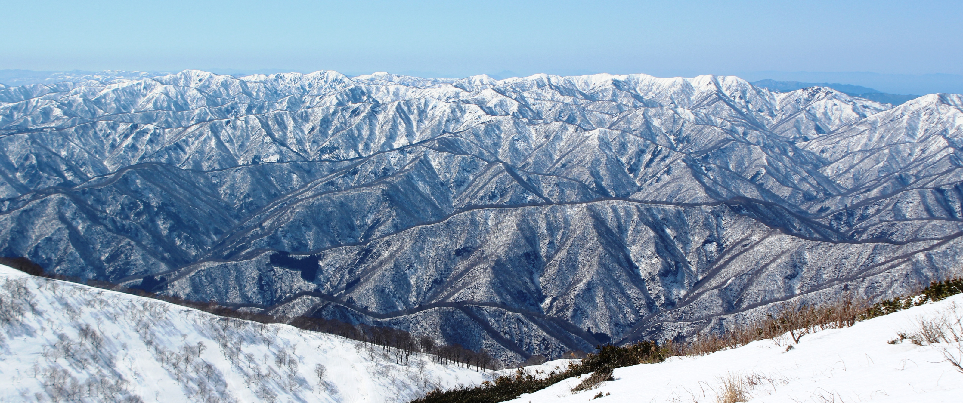 Etsumi Mountains around Mount Sanshu from Mount Nōgōhaku, Ibigawa, Gifu, Japan.